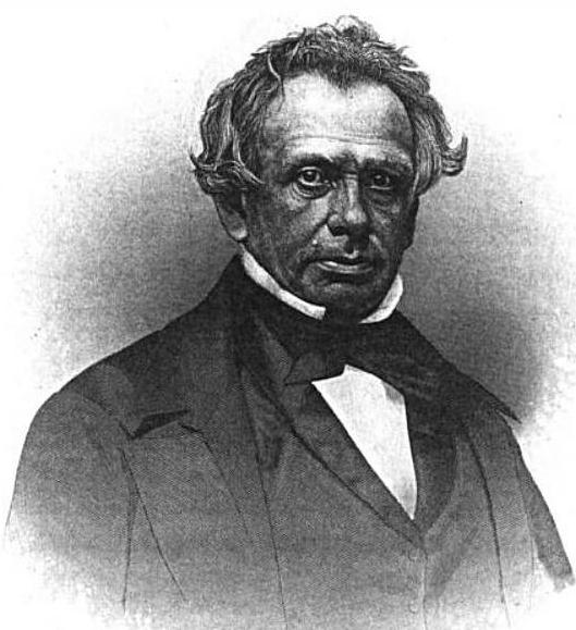 William Parmenter (Massachusetts Congressman)